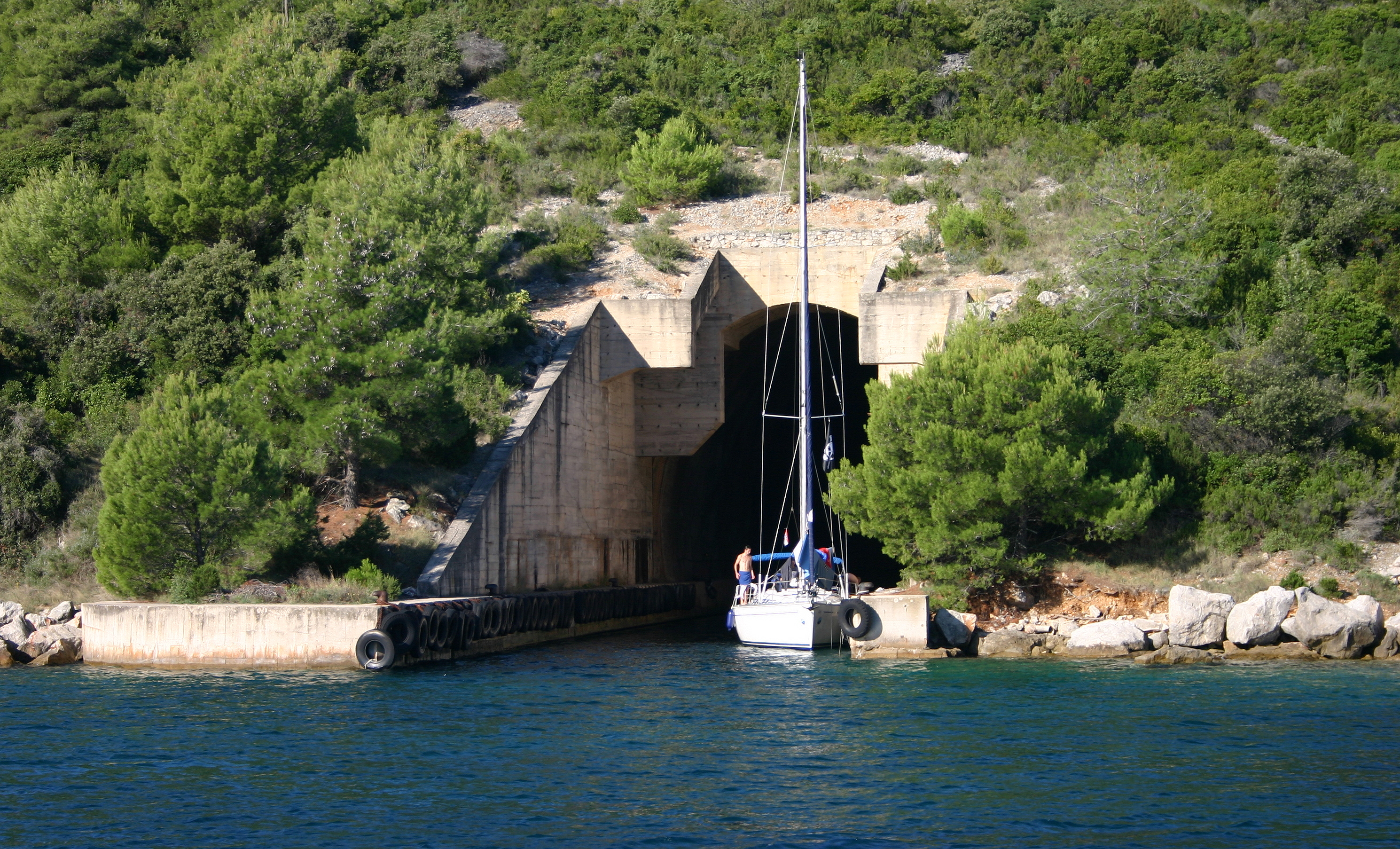 A submarine pen S of Dragove